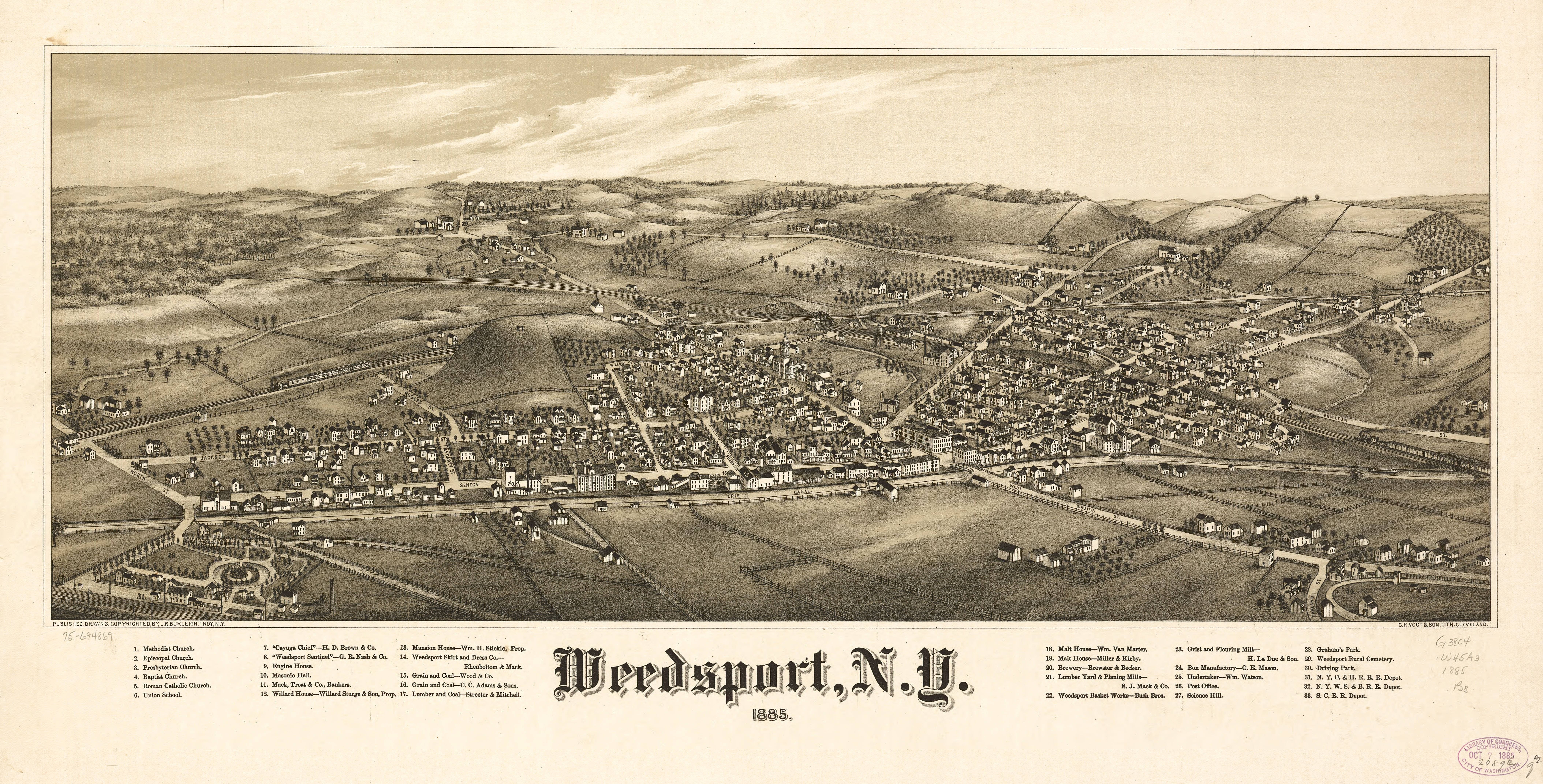 Perspective map not drawn to scale. Bird's-eye-view. LC Panoramic maps (2nd ed.), 654 Available also through the Library of Congress Web site as a raster image. Indexed for points of interest. AACR2: 100, 651/1, 710